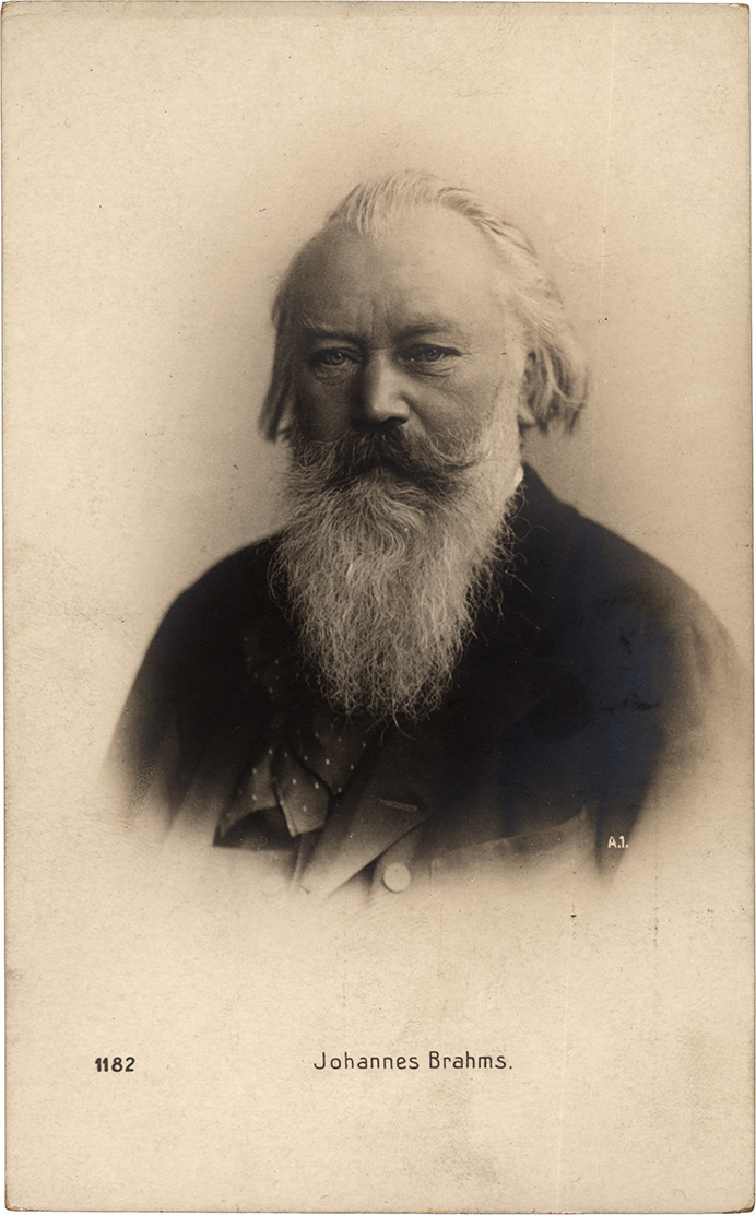 Portrait of Johannes Brahms, composer (1833-1897). Photo by Friedric Bruckmann, before 1897.